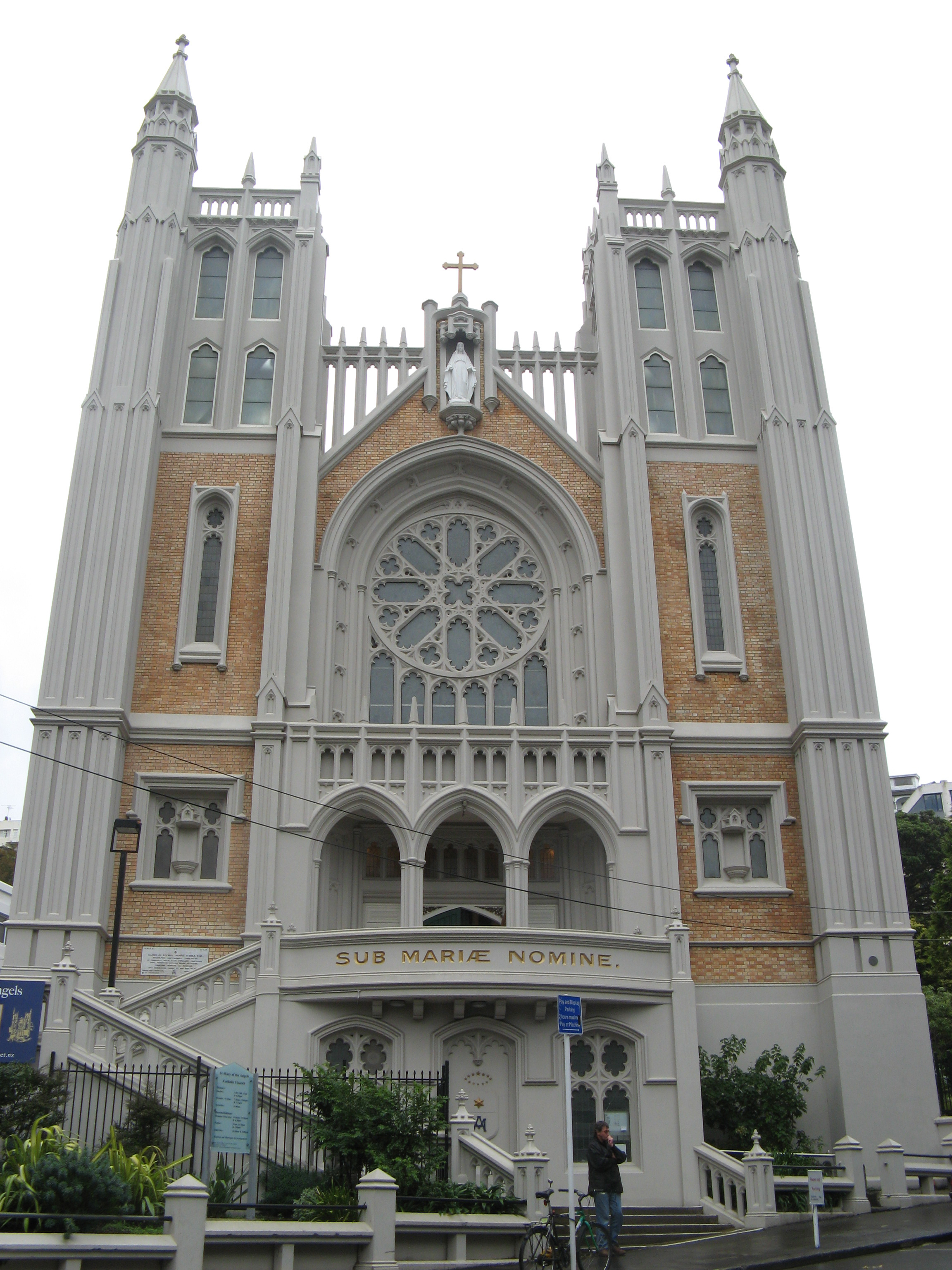 St Mary of the Angels Church, Wellington, New Zealand. Photo I took on the 5th April 2008. New Zealand Historic Places Trust Register number: 36